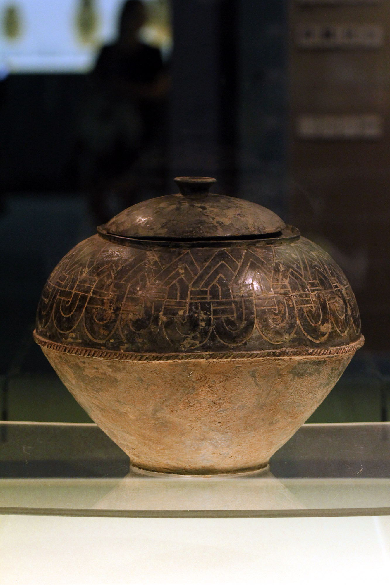 Black earthenwear covered jar (guan) with incised pattern of interlaced leaves. H. 26.2 cm, 15.2 mouth diameter. Songze culture, 3800-3200 B.C. Excaveted from a Songze culture site in Qingpu country, Shanghai. Shanghai Museum Ref : Chinese Ceramics : From the Paleolitic Period to the Qing Dynasty, edited by Li Zhiyan, Virginia L. Bower, and He Li. Yale University and Foreign Langage Press 2010. Page 84.